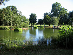 The 'Bathing Pond' in Victoria Park, Hackney 28-08-2005. Sharpened, reduced to 250 pixels width, sharpened. No crop.